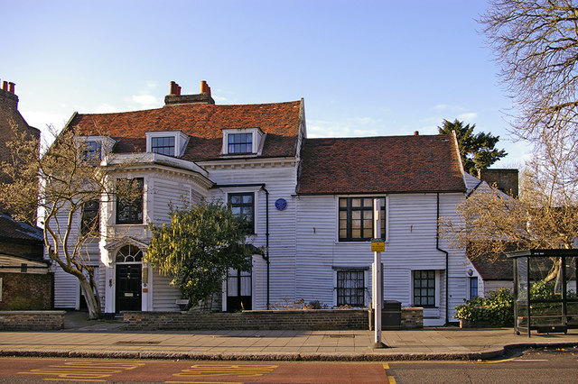 The White House, Silver Street, Enfield The White House, which is situated opposite the Civic Centre, is presently used as a Doctors' Surgery.